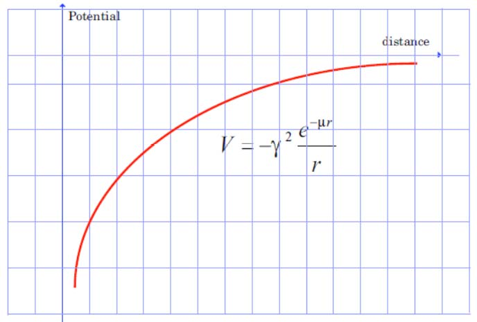 Potencial de yukawa